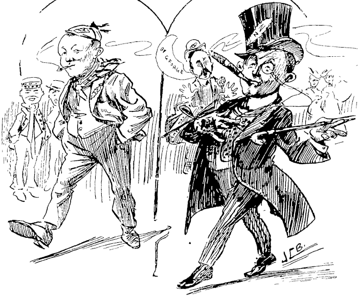 Caption: "George Tyler scores a try. George before the event. What may happen to George afterwards" When the Original All Blacks New Zealand rugby union team toured the British Isles in 1905, they were introduced to King Edward VII at the Islington Cattle show, where the King shook hands with George Tyler (a member of the team) and congratulated him on the team's success.